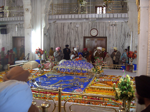 Gurdwara Dukh Nivaran Sahib, Patiala. Sikhism Related Photo of Steel Kara - one of five articles of faith.